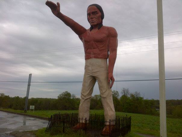 Native American in chinos, located at Exit 113 off of Interstate 65 in Tennessee.